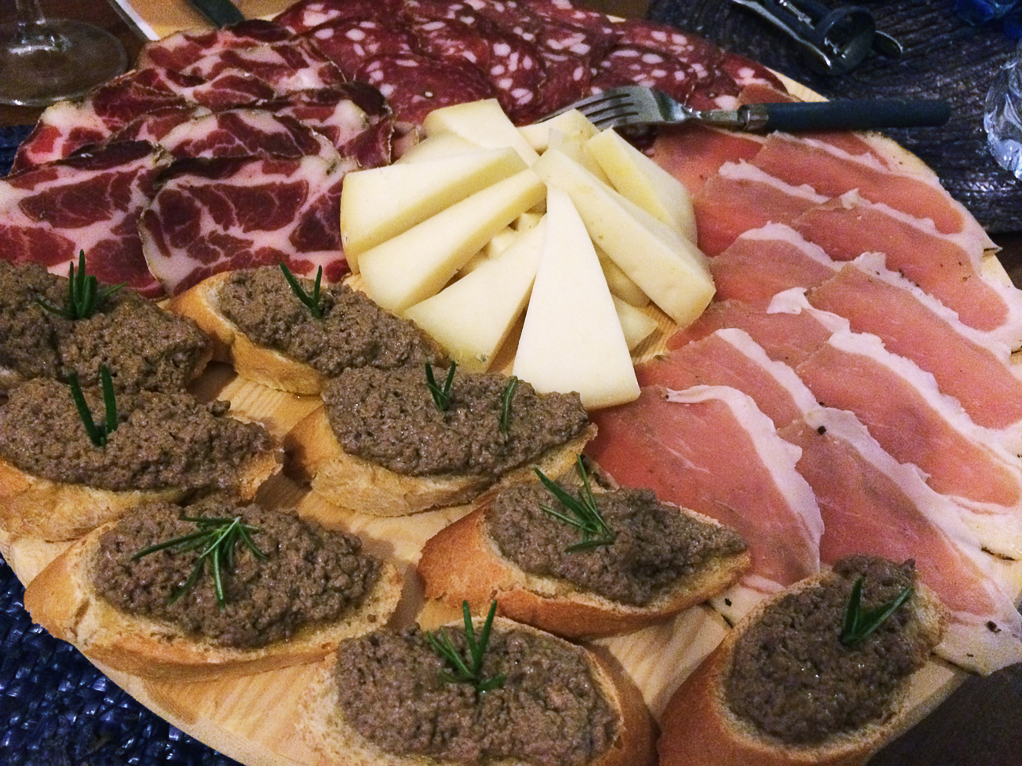 20140520_iphone_052